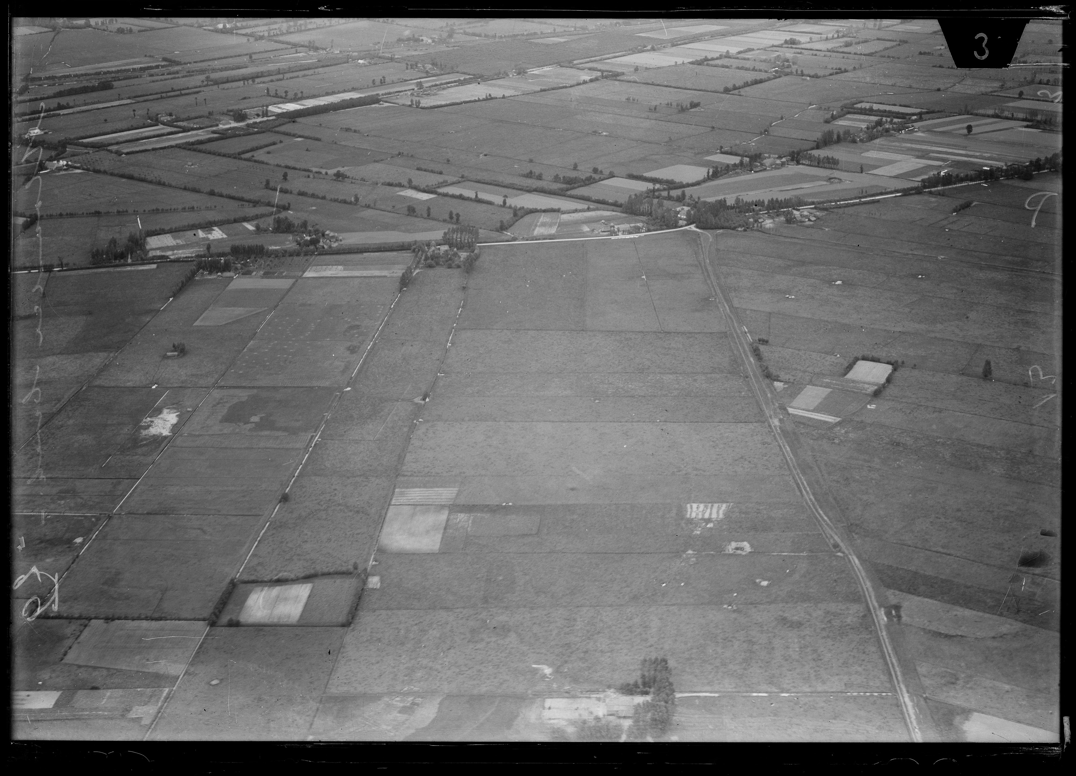 Aerial photograph of the railway from Utrecht to Arnhem east of Veenendaal near Maanderbroek in The Netherlands.